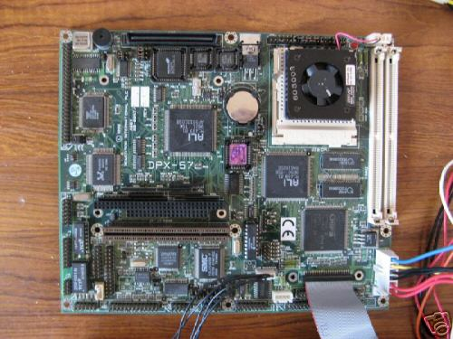 Close up of Densitron DPX-57 Single Board Computer.